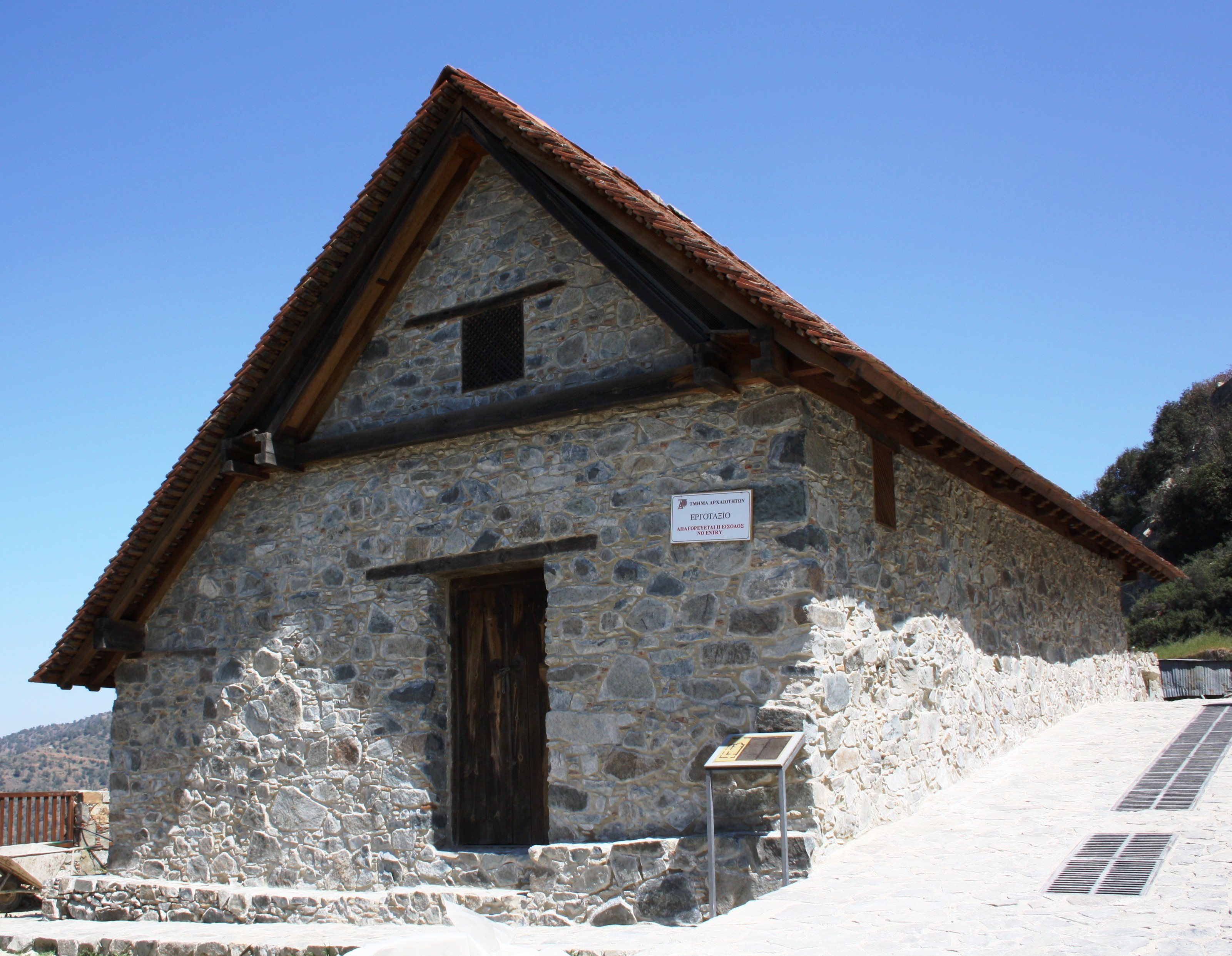 Outside view of the Pangia church in Moutoullas, Troodos Mountains, Cyprus. Part of the Troodos UNESCO World Heritage Site.